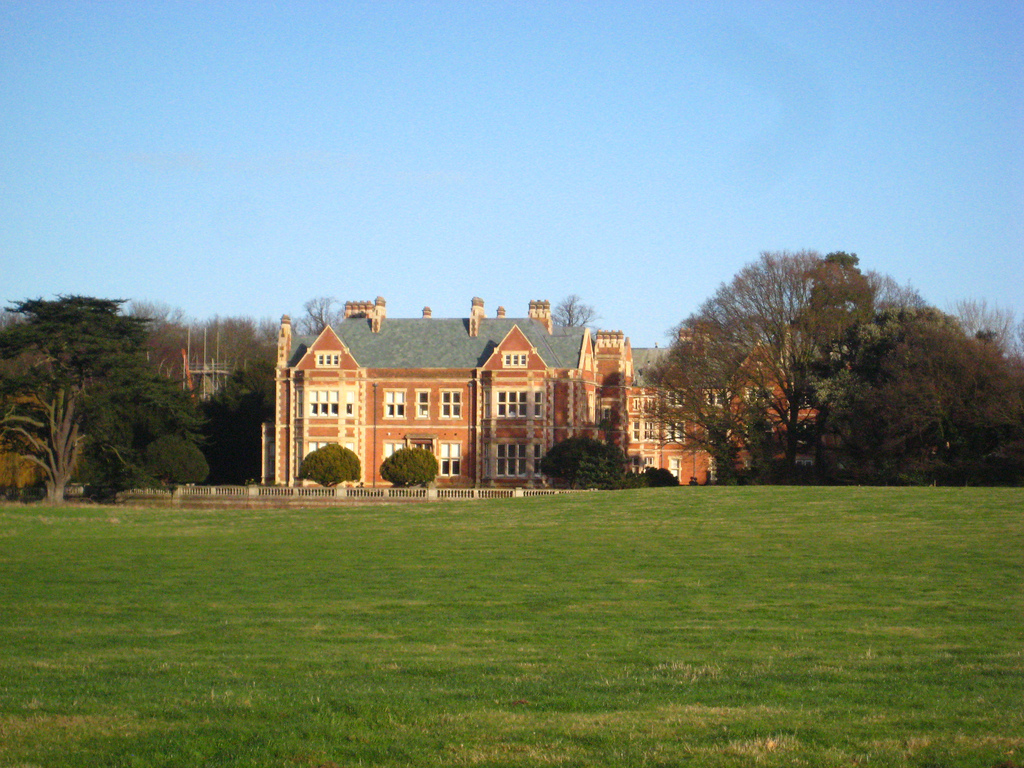 Caldecote Hall is a manor house which was extensively rebuilt in 1880.